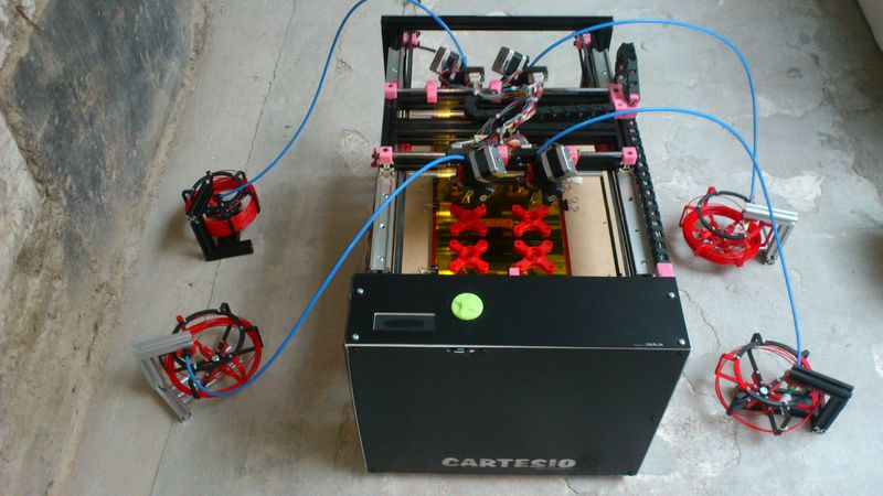 CartesioLDMP mass production 3Dprinter